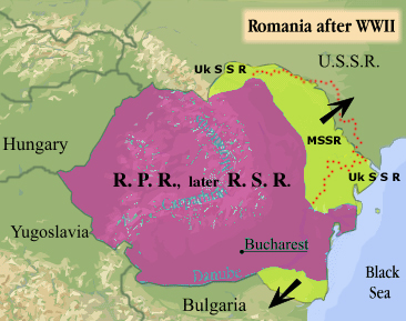 Map of Romania, 1945